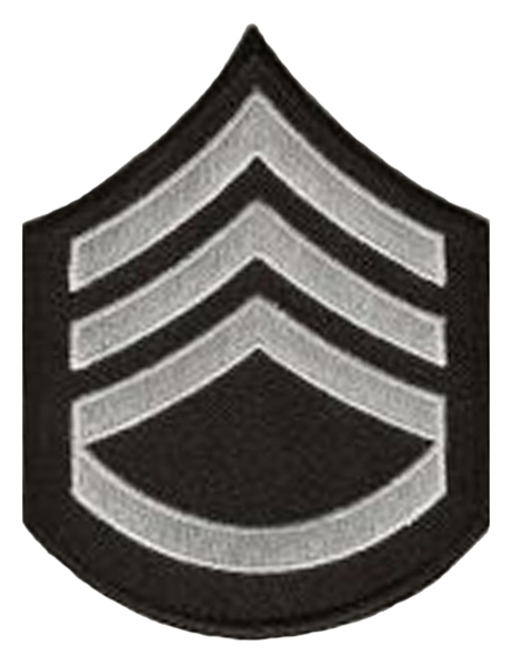 This is my image that I created with Photoshop